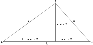 Law of cosines proof